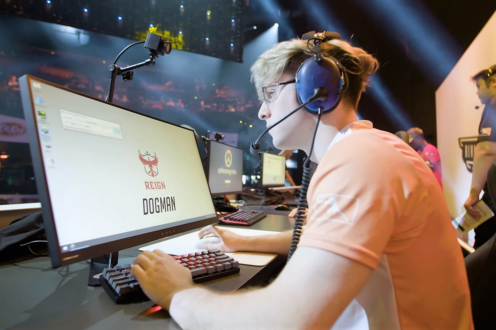 Dusttin "Dogman" Bowerman on stage at The Novo in Los Angeles, California for the Kit Kat Rivalry Weekend.